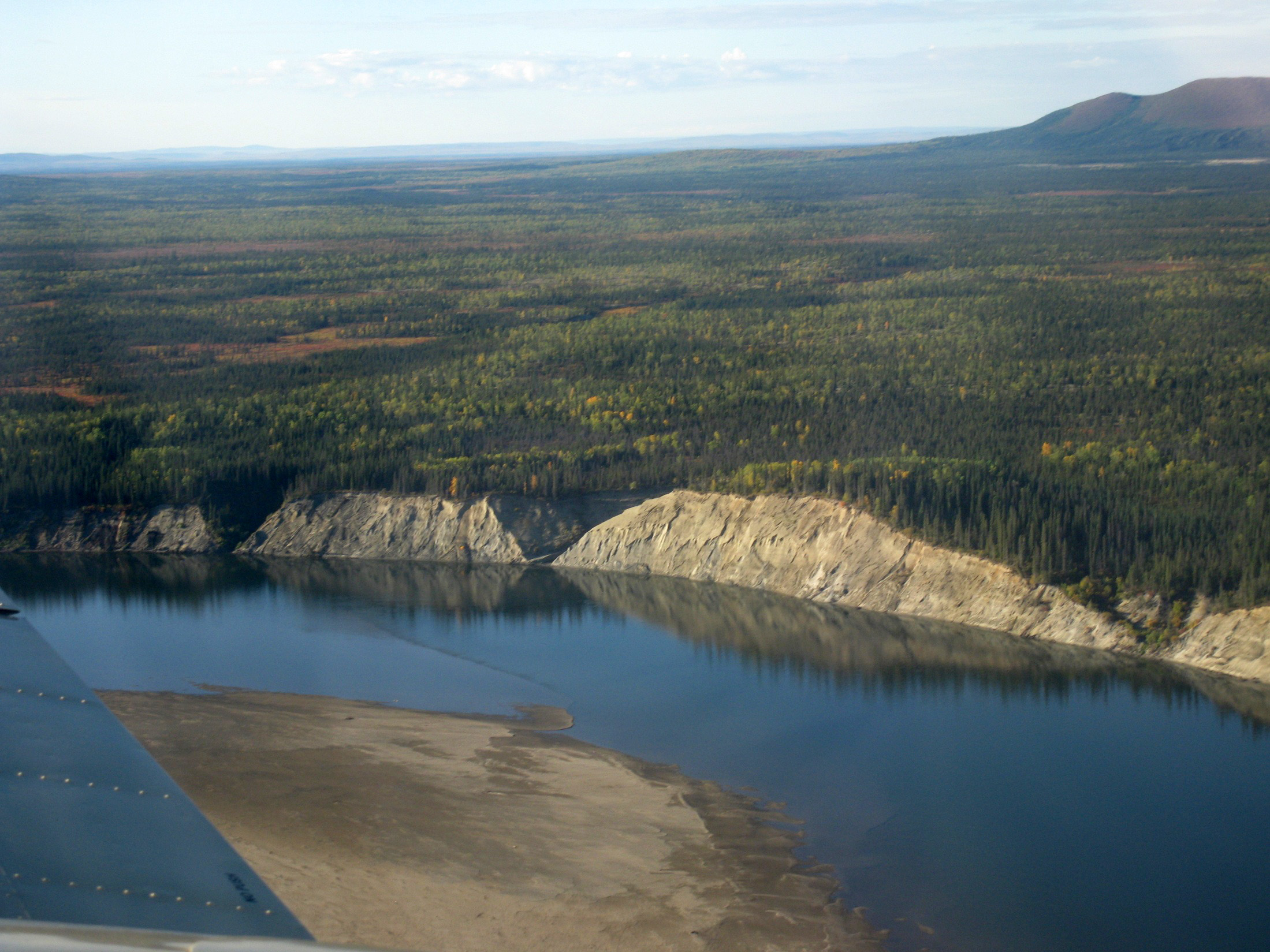 Kobuk River, cliffs